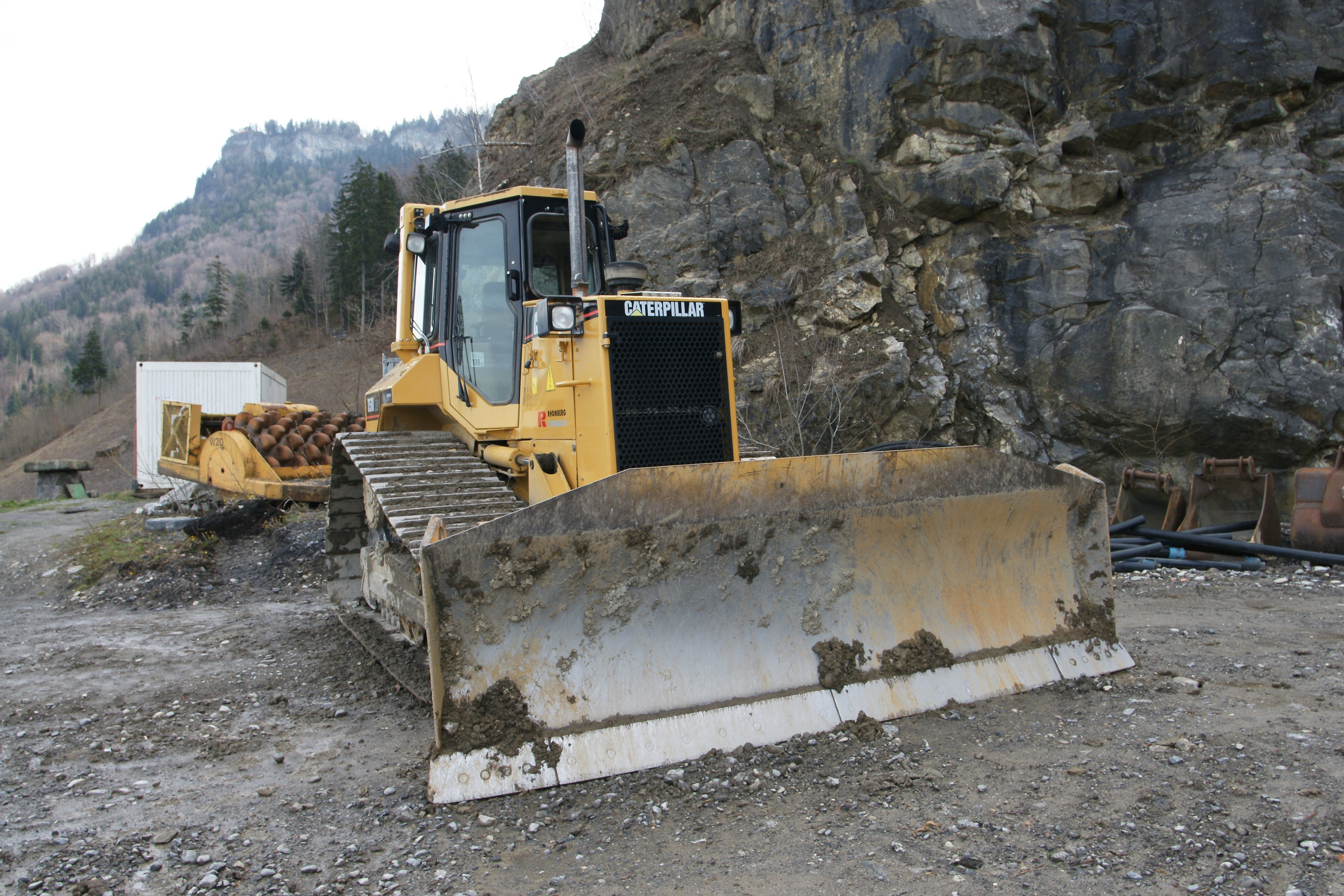 Caterpillar D5M bulldozer.